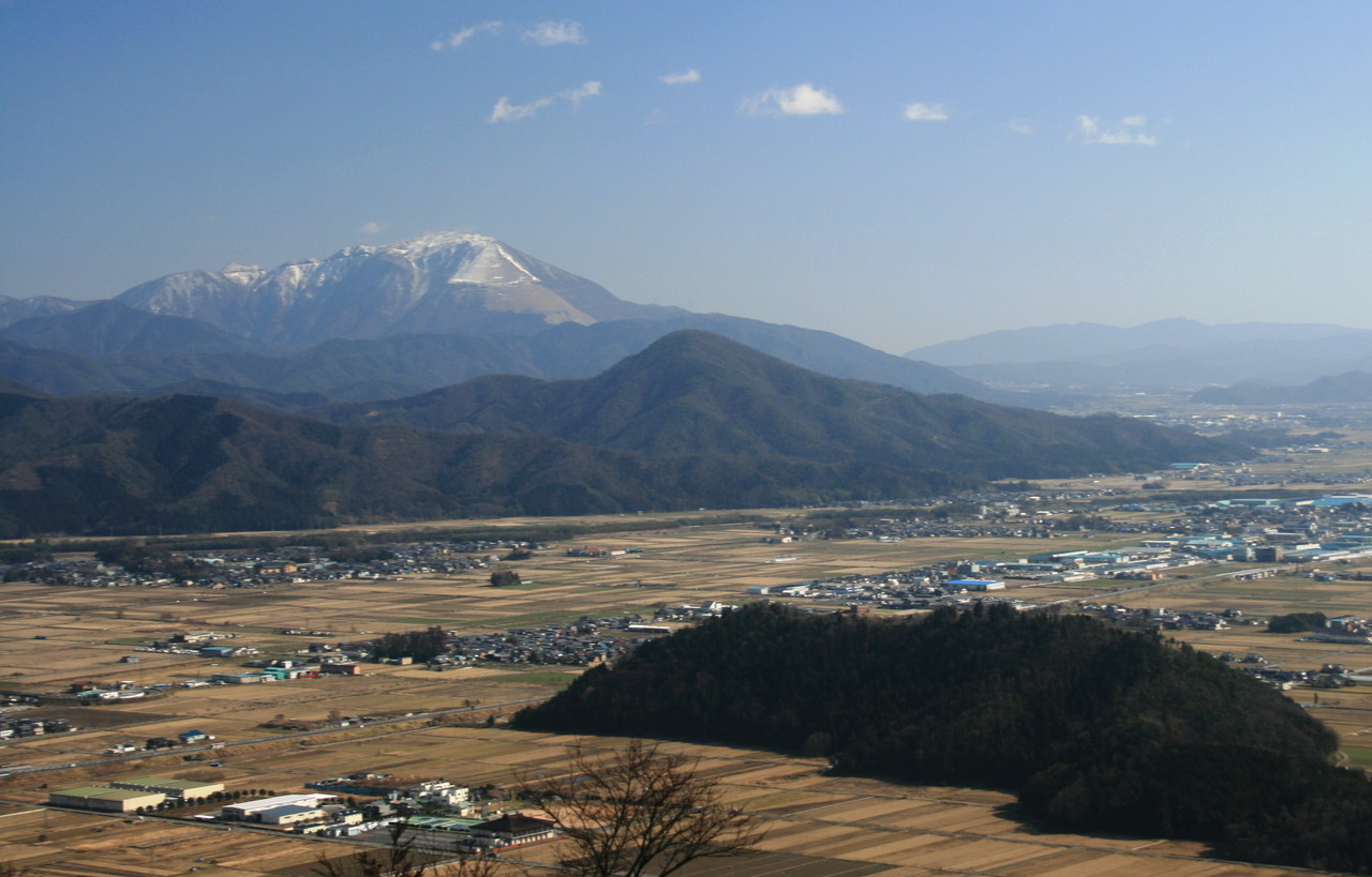 Odaniyama and Ibukiyama seen from Shizugatake